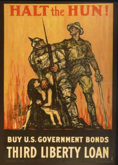 Halt the Hun! poster Drawing of an Allied Forces soldier pushing a German soldier away from a frightened woman who is holding a small child in her lap. The German soldier has blood on his hands. Red flames rise from the ground in the background.